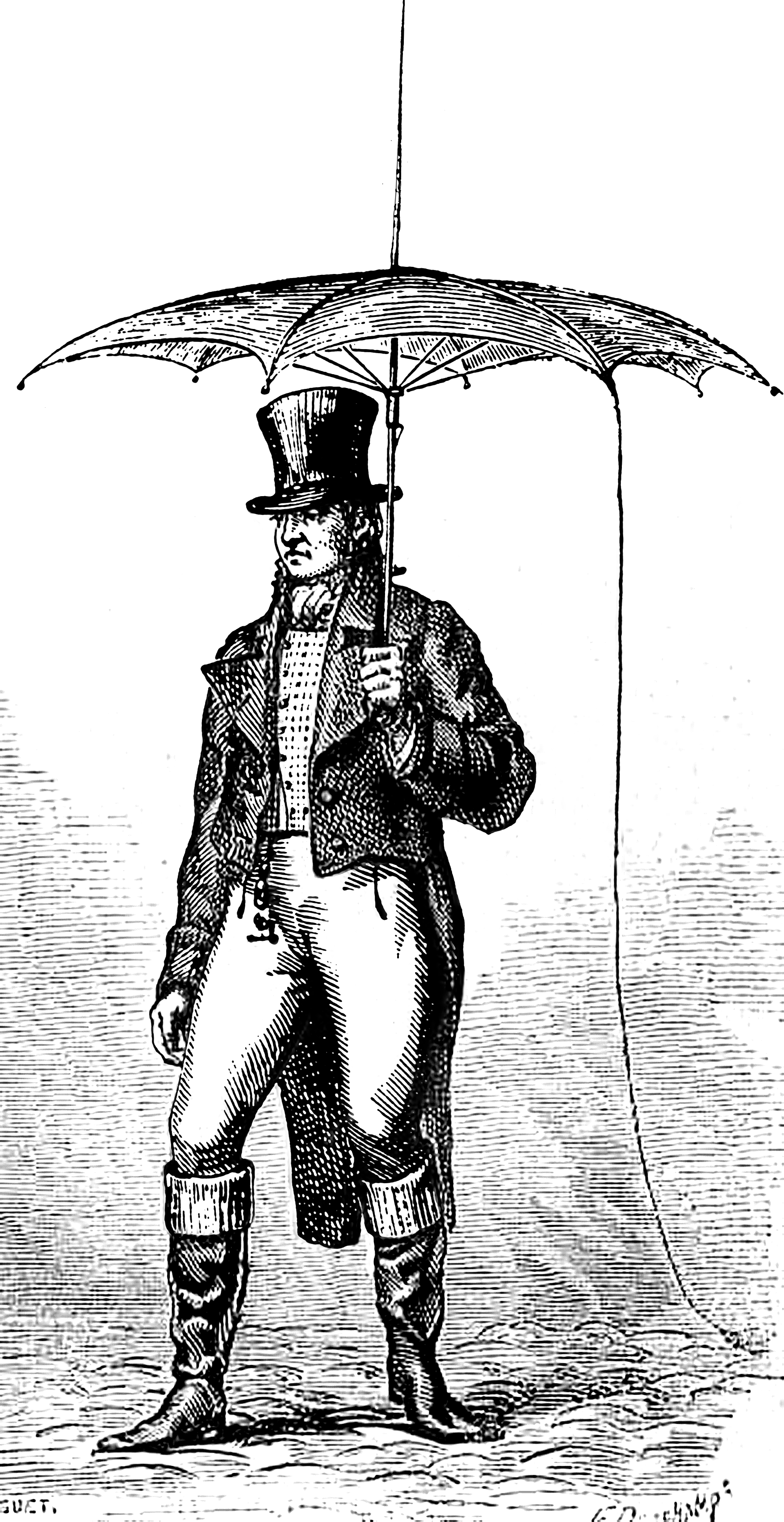 Parapluie-paratonnerre. An umbrella fitted with a lightning rod by Benjamin Franklin